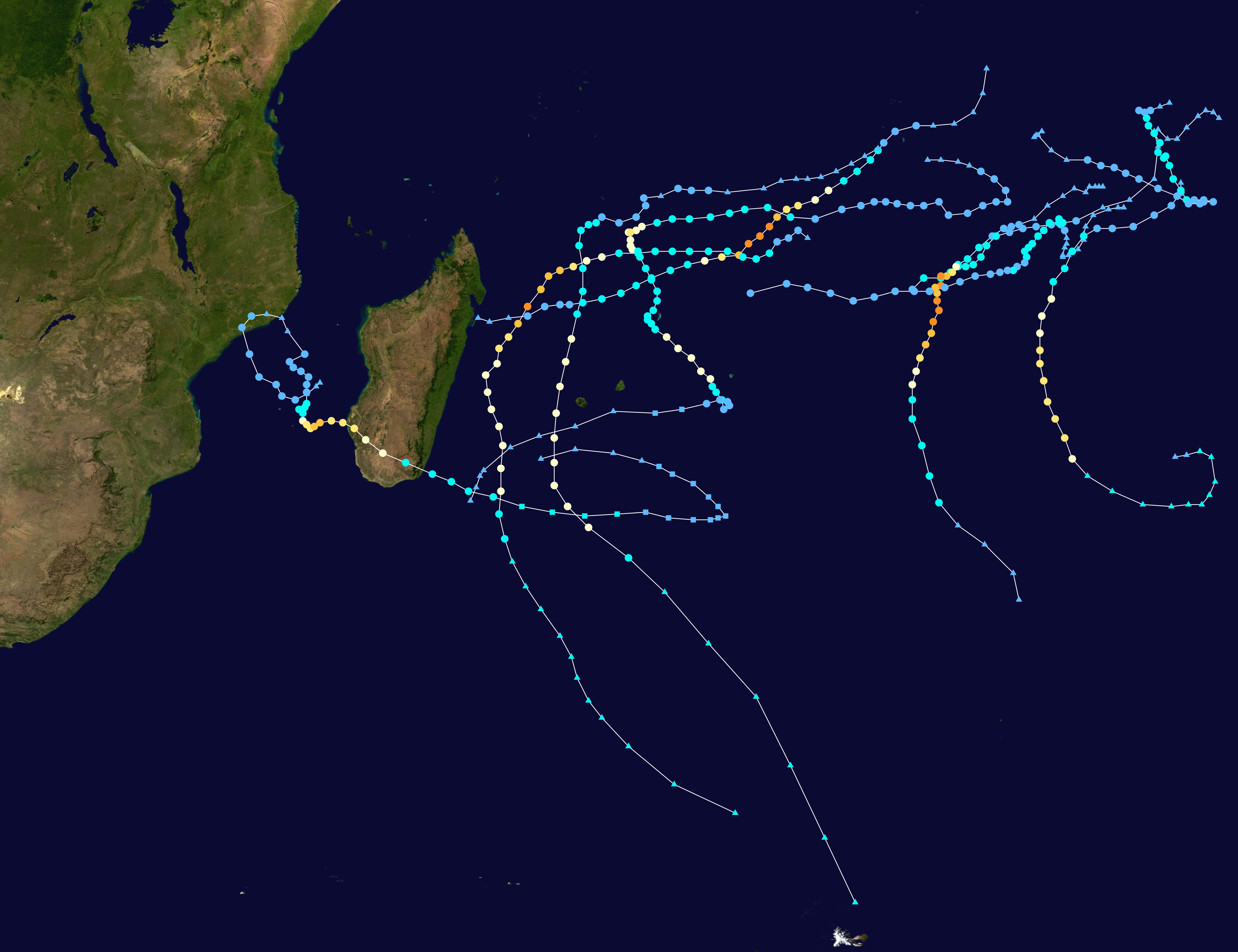 This map shows the tracks of all tropical cyclones in the 2012-13 South-West Indian Ocean cyclone season. The points show the location of each storm at 6-hour intervals. The colour represents the storm's maximum sustained wind speeds as classified in the Saffir-Simpson Hurricane Scale (see below), and the shape of the data points represent the type of the storm. Saffir–Simpson scale Tropical depression≤38 mph≤62 km/h Category 3111–129 mph178–208 km/h Tropical storm39–73 mph63–118 km/h Category 4130–156 mph209–251 km/h Category 174–95 mph119–153 km/h Category 5≥157 mph≥252 km/h Category 296–110 mph154–177 km/h Unknown Storm type Tropical cyclone Subtropical cyclone Extratropical cyclone / Remnant low / Tropical disturbance / Monsoon depression